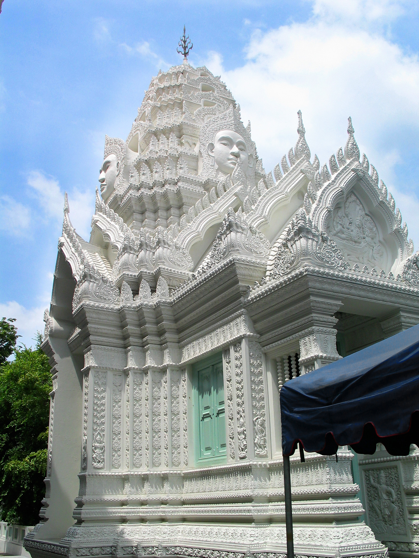 Hor Phra Chom (Hall of King Chomklao) of Wat Rajapradit, Bangkok